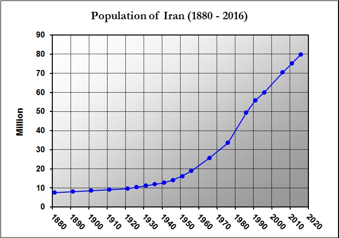 Iran population change between years 1880-2016.